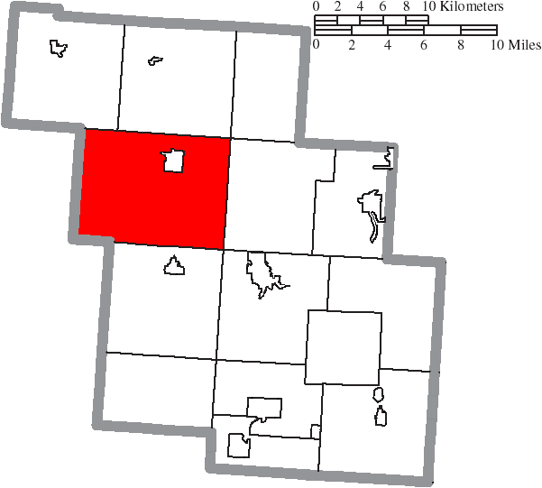 Map of the municipal and township boundaries of Perry County, Ohio, United States, as of the 2000 census, with the location of Reading Township highlighted. Township borders are shown only in unincorporated areas in order to differentiate incorporated and unincorporated areas more clearly.